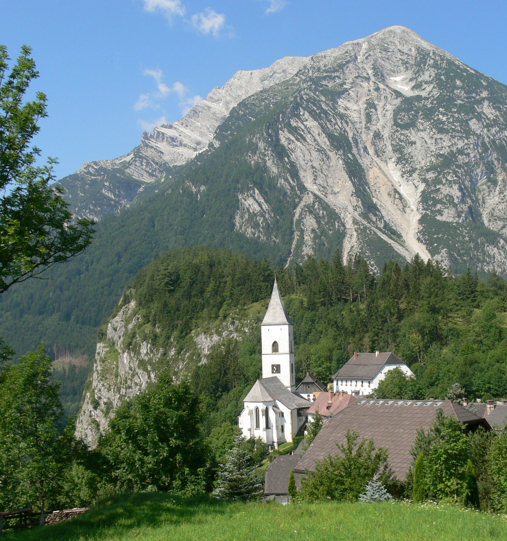 Pürgg, Styria. View from St.John´s chapel to town centre with St.George-church. The mountain above is the "Grimming".